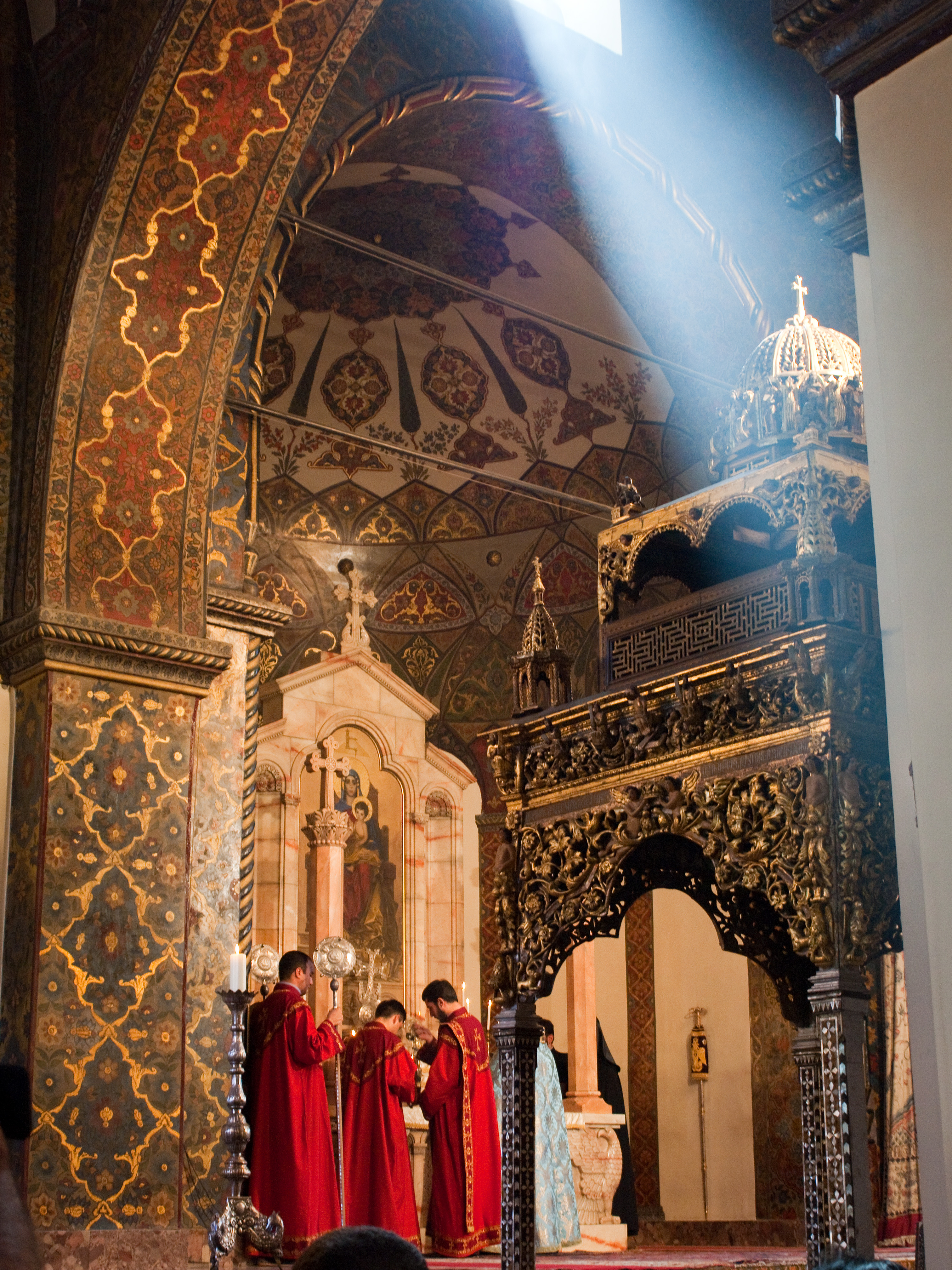 Armenia - Day 2 - 19 September 2010. The religious centre of the Armenian Apostolic Church and a UNESCO World Heritage Site. Armenia was the first known country to adopt Christianity as its state religion (301 AD). The thing that was very noticeable to me as a secular outsider was the sense of community, companionship and warmth in church services.